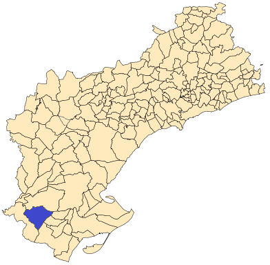 Mas de Barberans